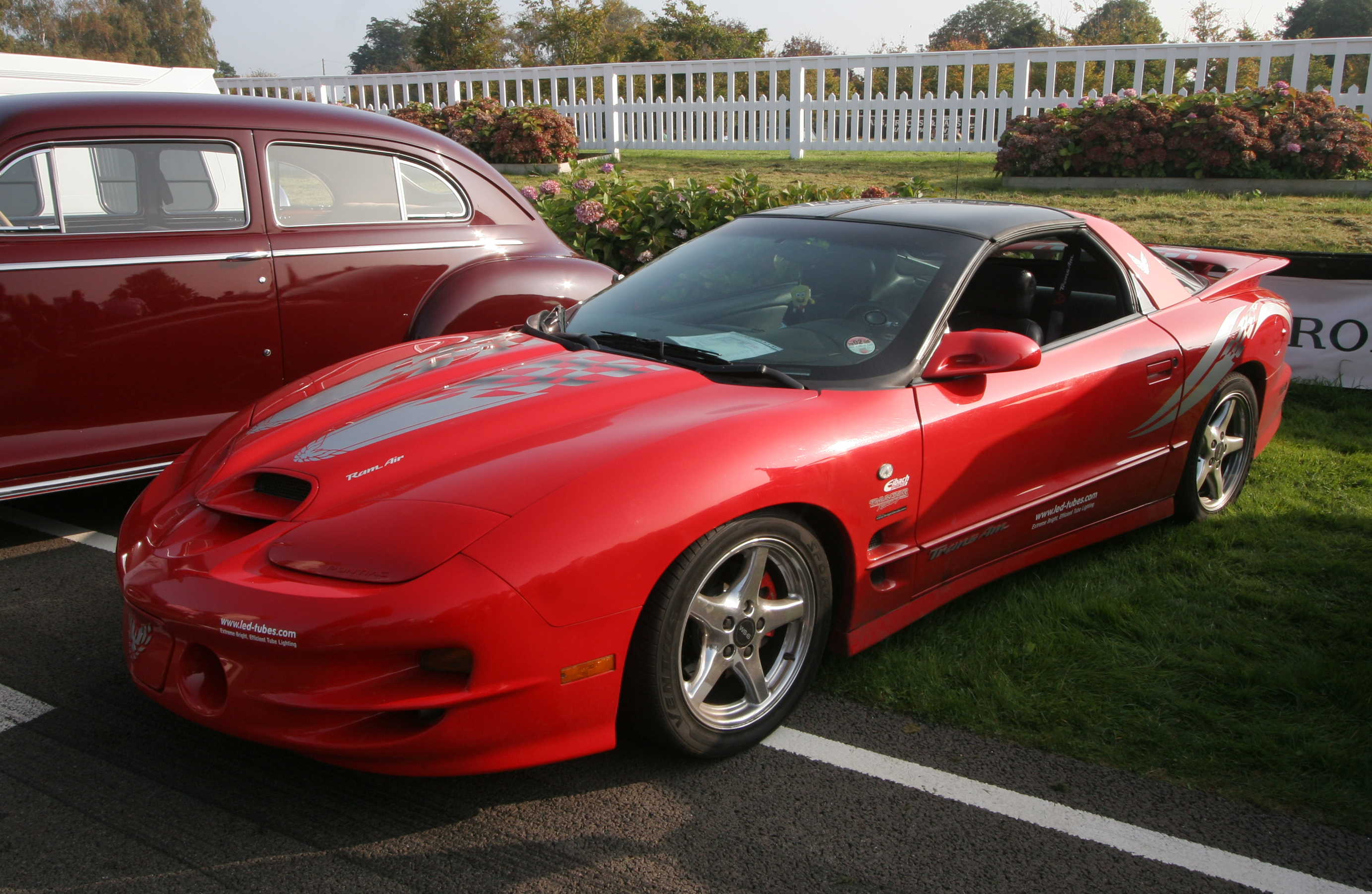 Goodwood Breakfast Club - Pontiac Trans Am WS6 Ram Air